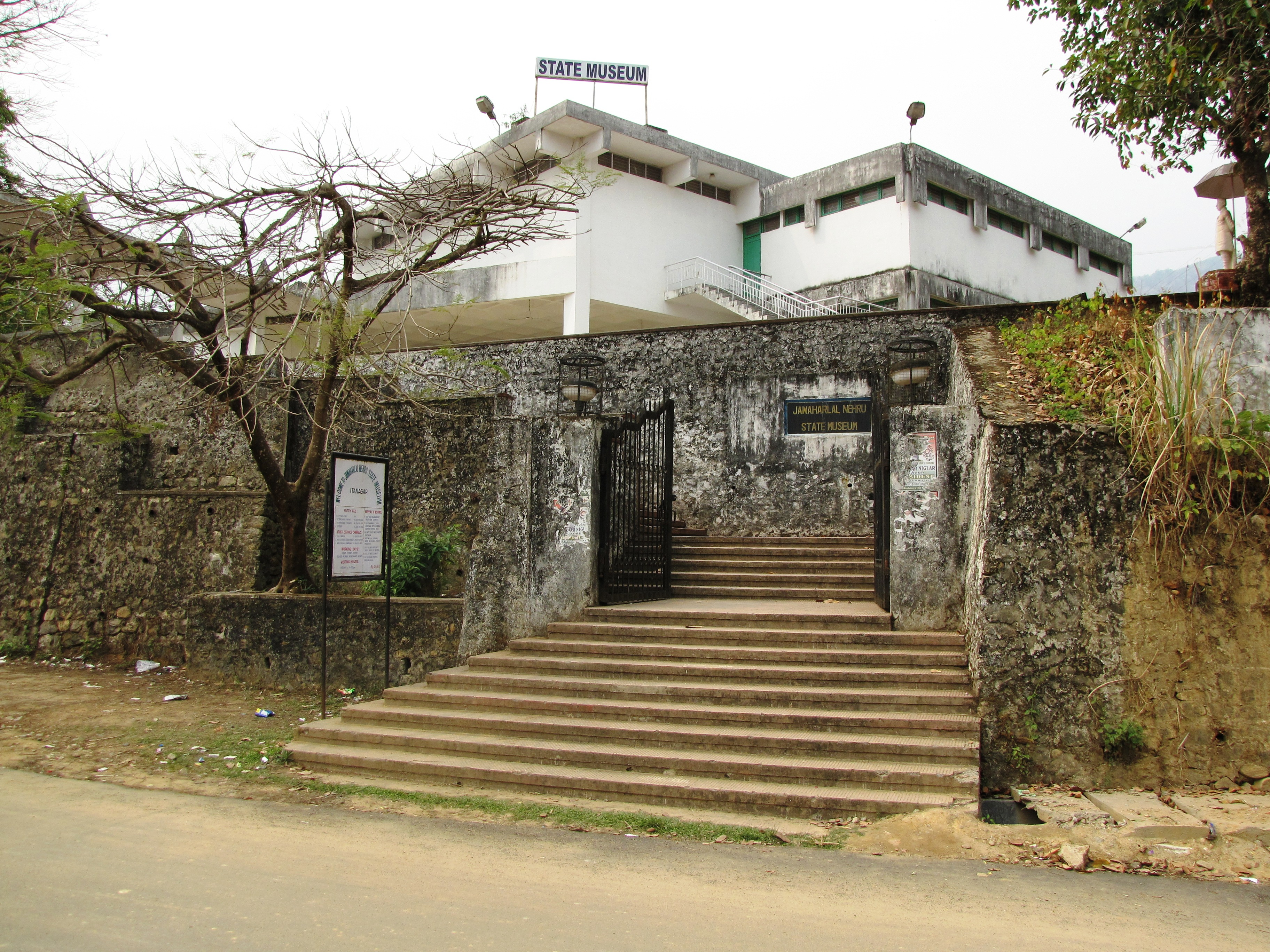 Entrance to the Jawaharlal Nehru Museum building, Itanagar, Arunachal Pradesh, India.